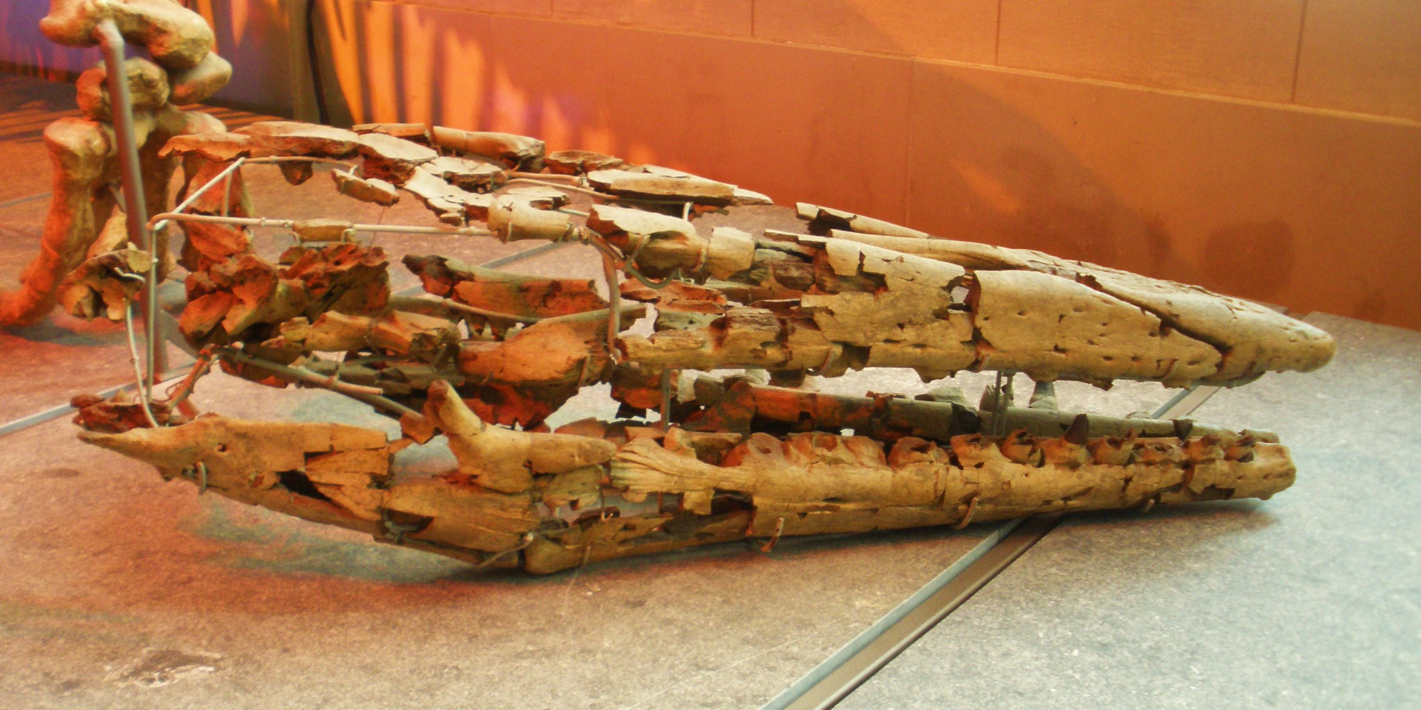 Fossil of Hainosaurus, an extinct reptile -- Took the photo at Natural History Museum of Bruxelles